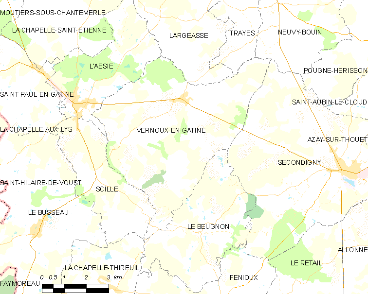 Map of French municipality Vernoux-en-Gâtine